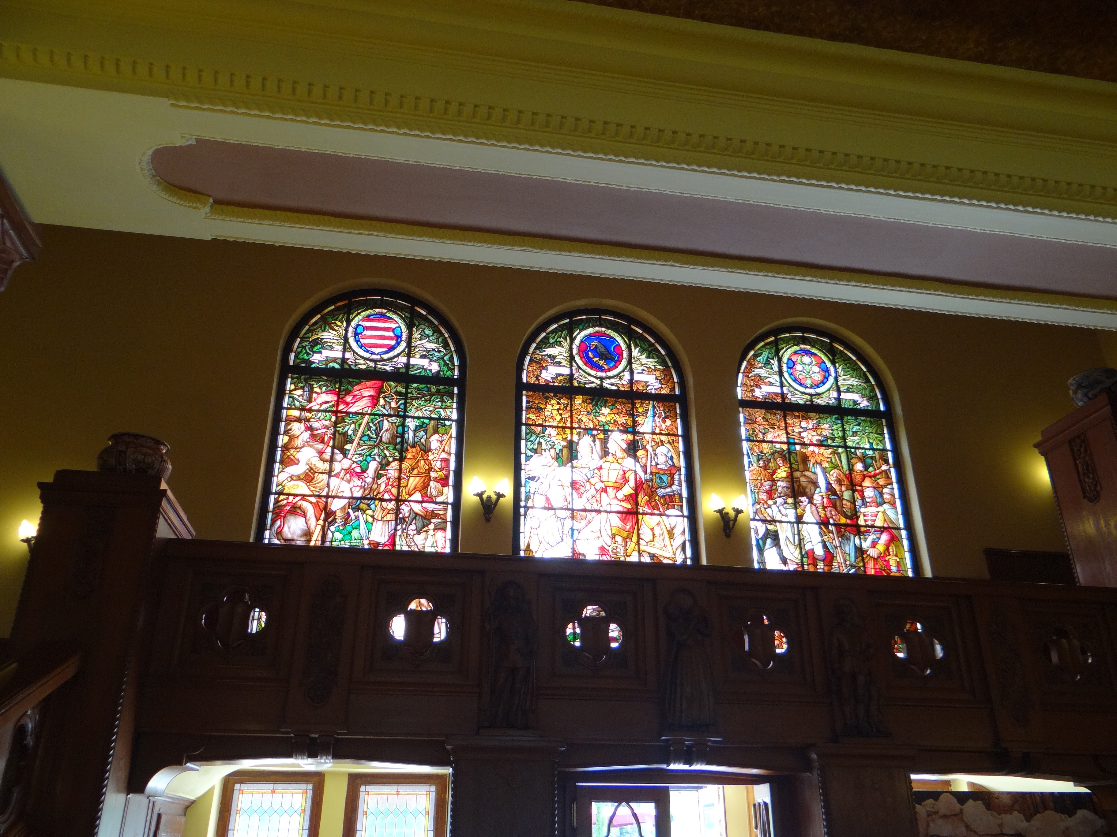 Stained-glass windows in the Palace Hotel lobby, Lillafüred, Hungary